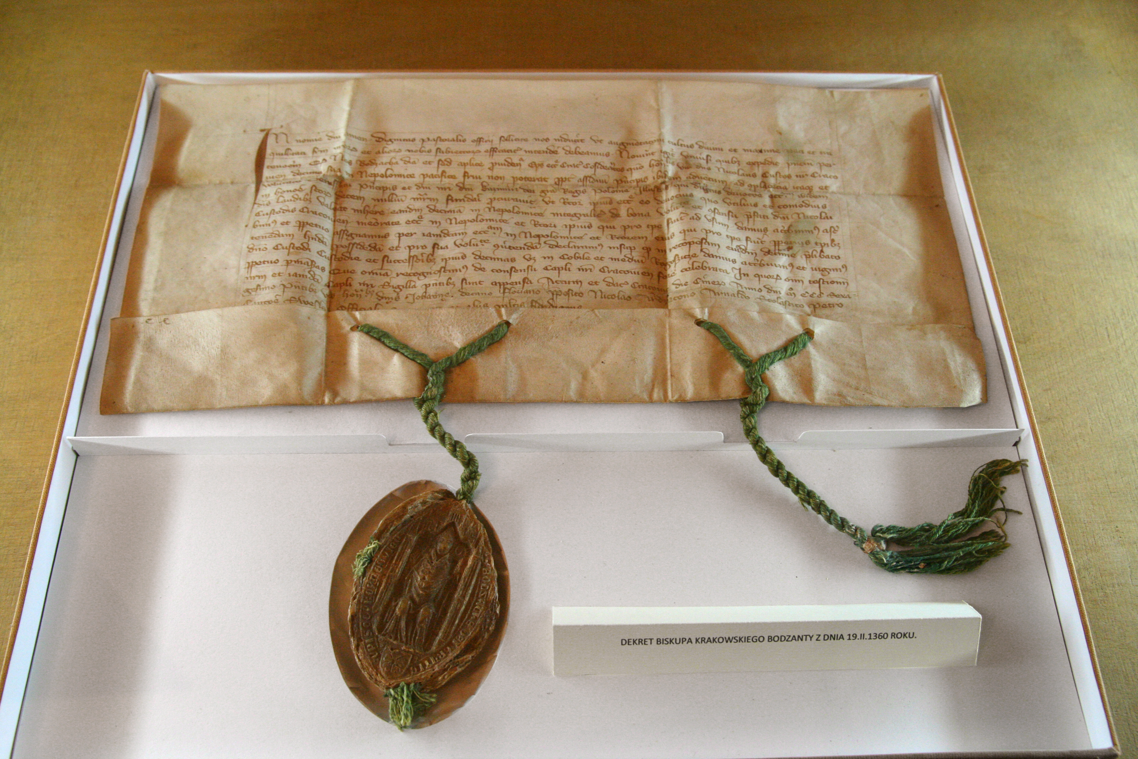 Old document in museum in Niepołomnice.